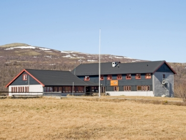 Pilgrimcenter at Dovrefjell, Norway